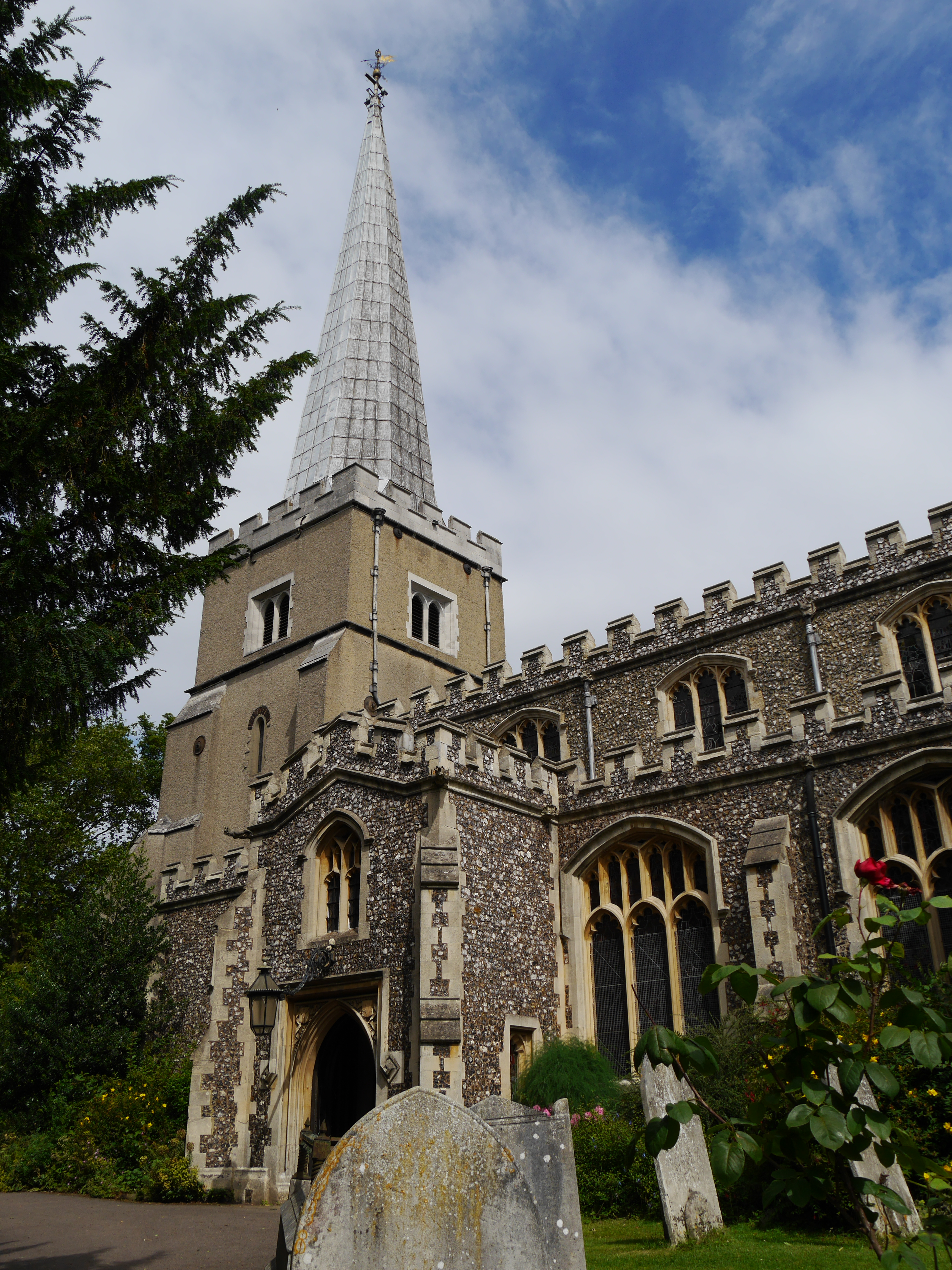 St Mary's, Harrow on the Hill, 2015